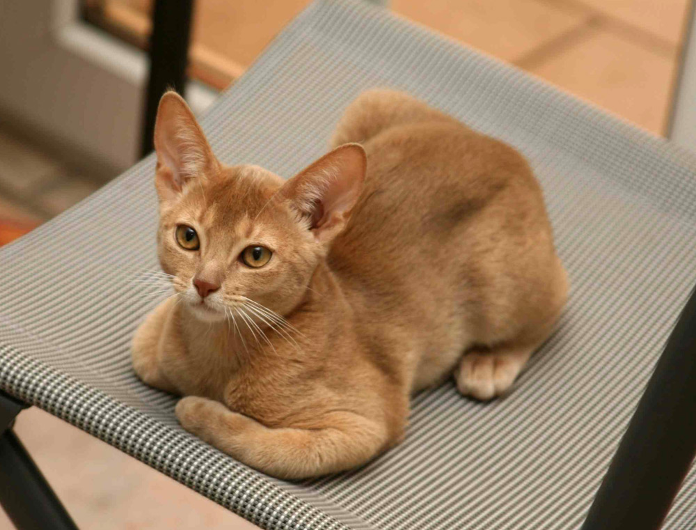 Xeni's amber-eyed kitten